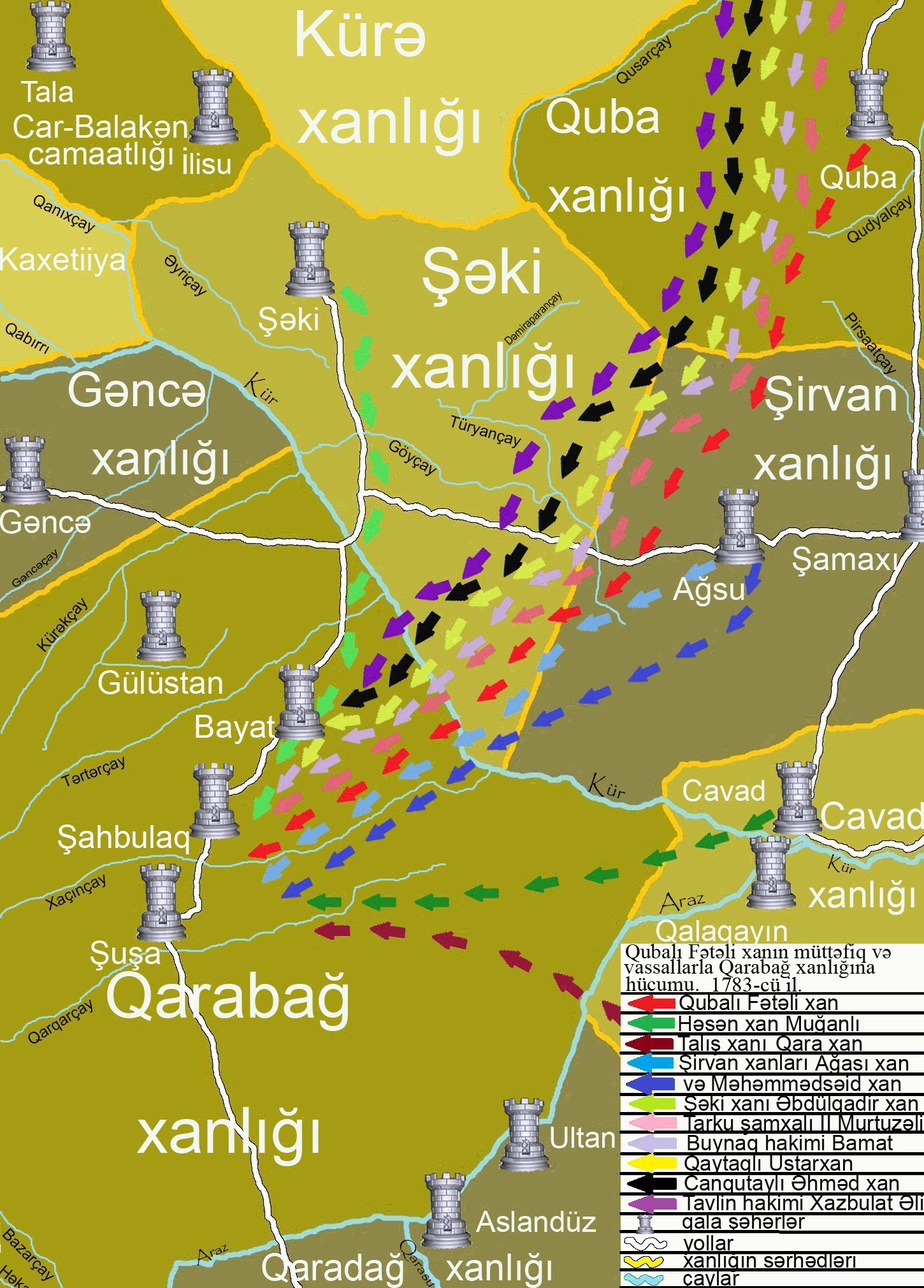 Attack to Khanate of Karabakh